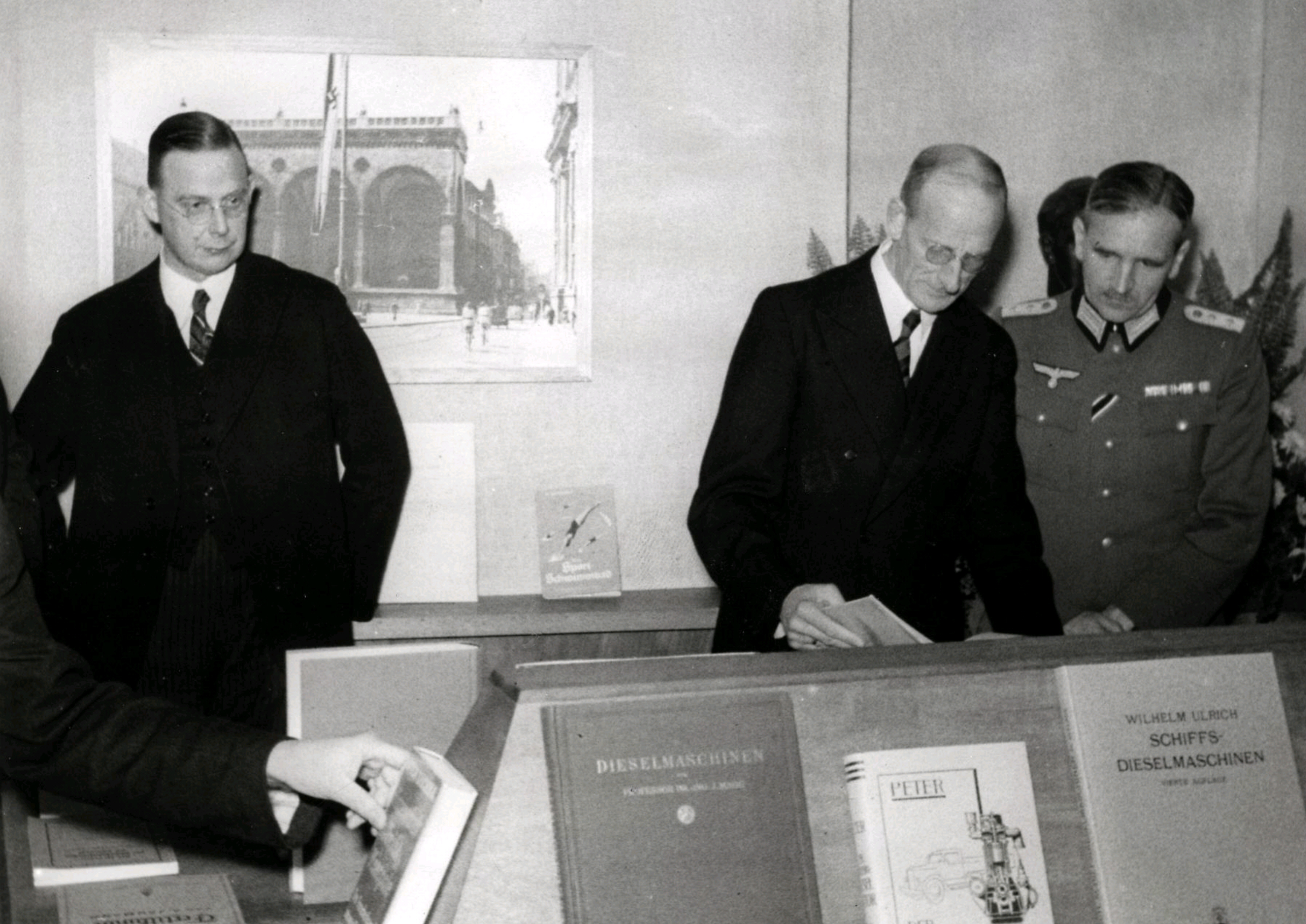 Opening of the exhibition "Scientific German books" in the University Library Amsterdam, 17 November 1941. From left to right: Amsterdam professor Jan van Dam (also secr.-gen. of the Ministry of Education), Amsterdam elderman J. Smit (NSB) and Dr. Friedrich Plutzar, substitute for Dr. Friedrich Wimmer